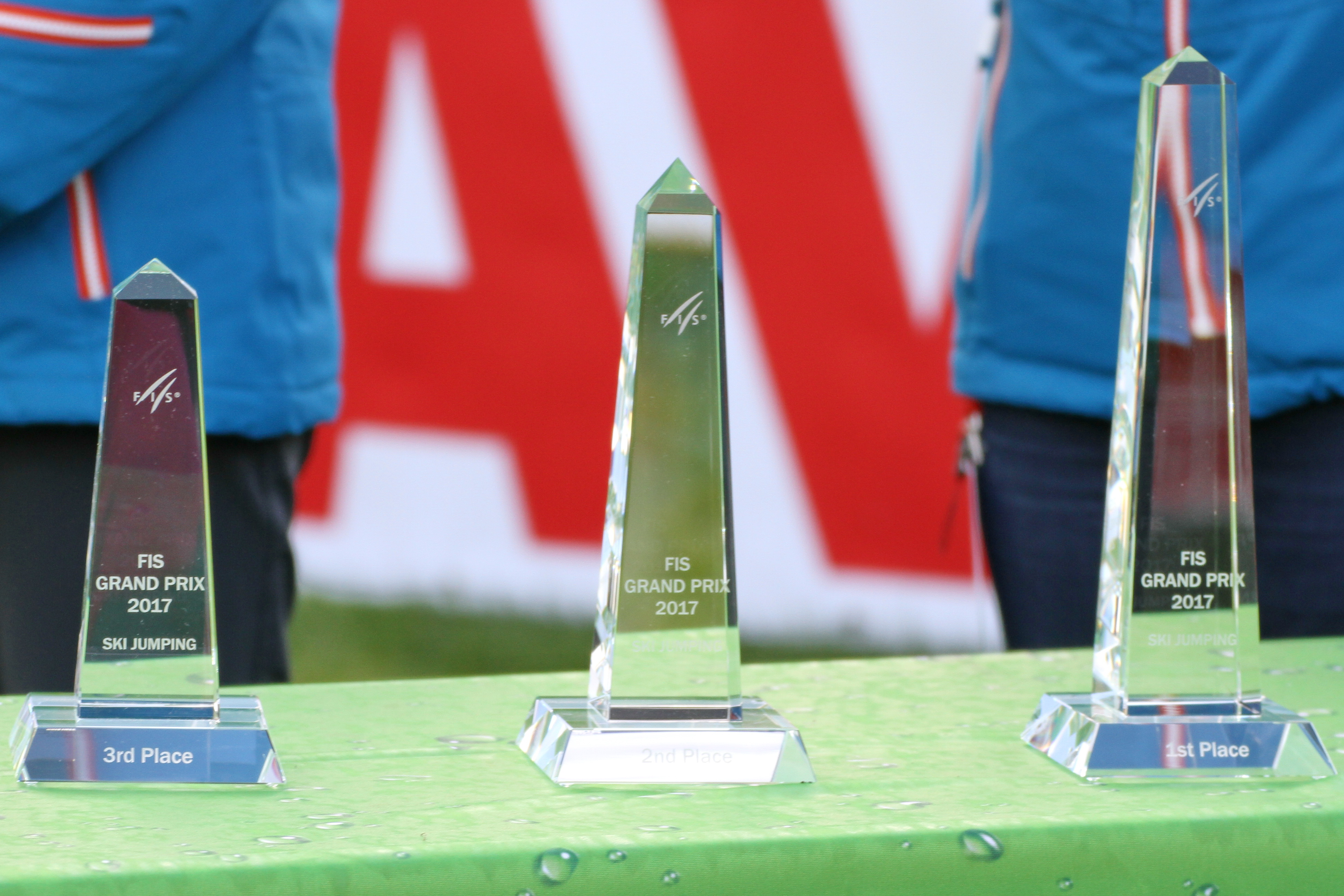 FIS Ski Jumping Summer Grand Prix Klingenthal 2017 on 2017-10-03 Cups for the Winners of the Summer Grand Prix 2017